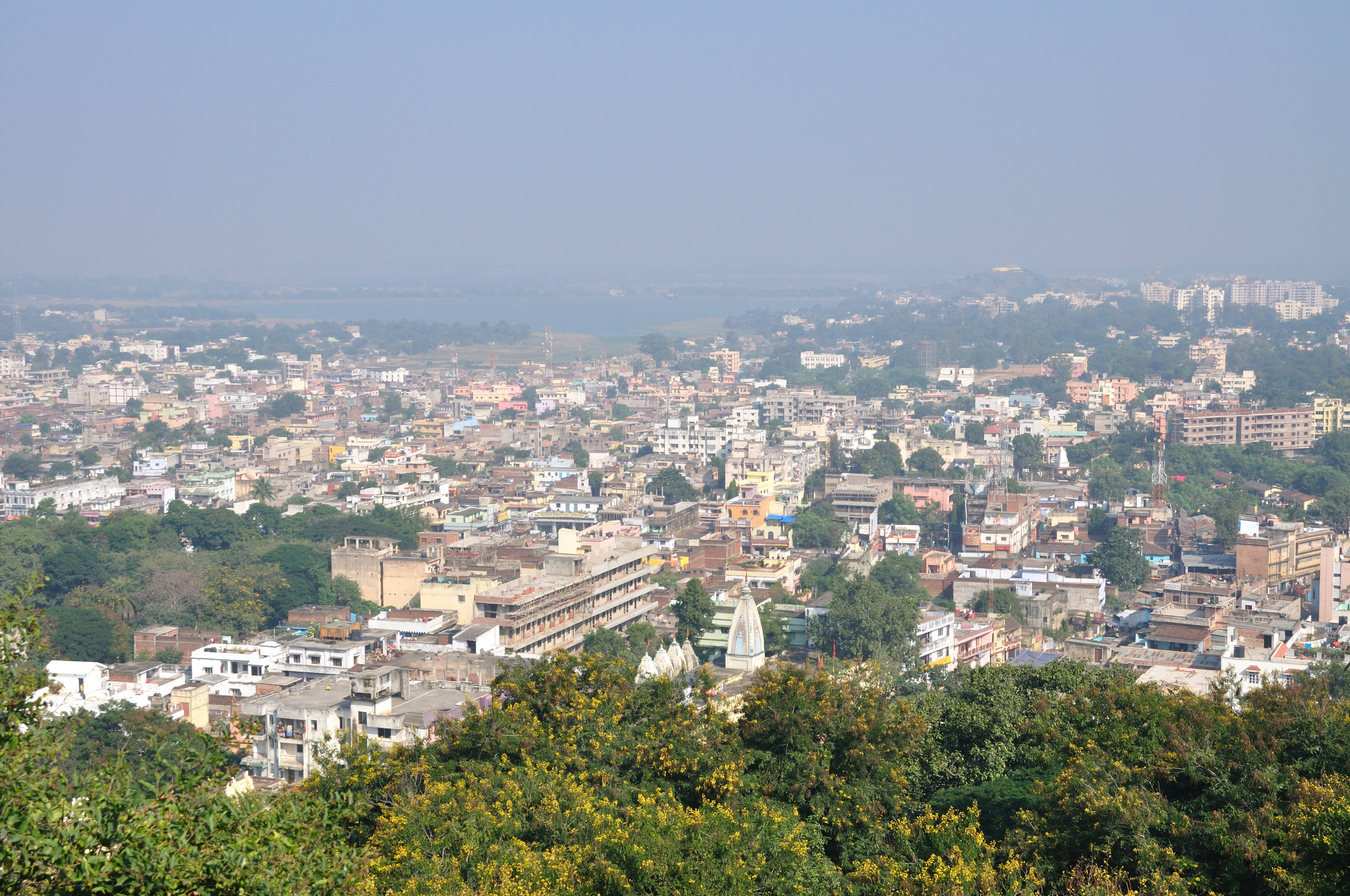 Ranchi is the capital of the Indian state of Jharkhand. This photpgraph has been taken from Ranchi Hill.